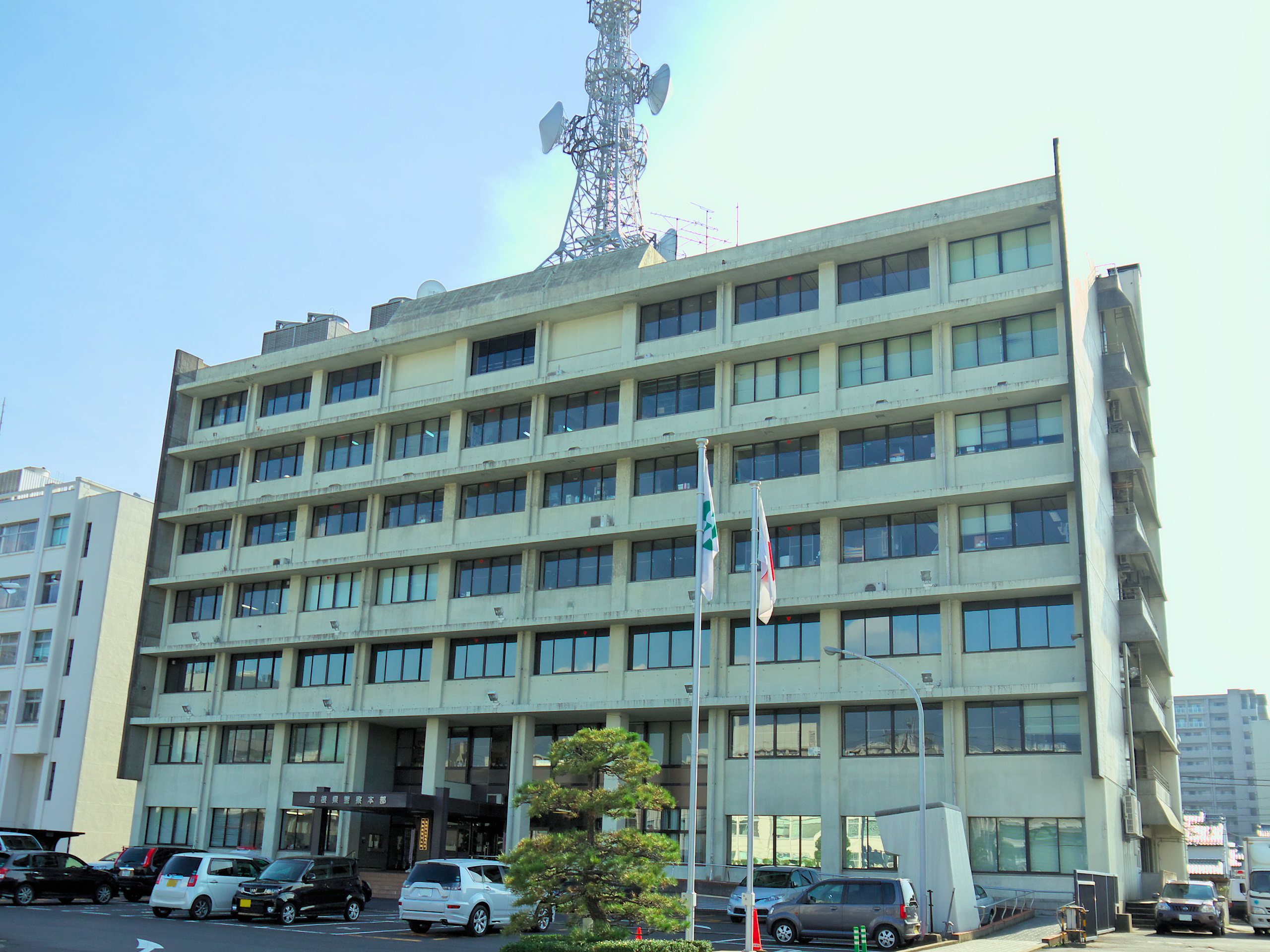 Shimane Prefectural Police Headquarters, Matsue, Shimane